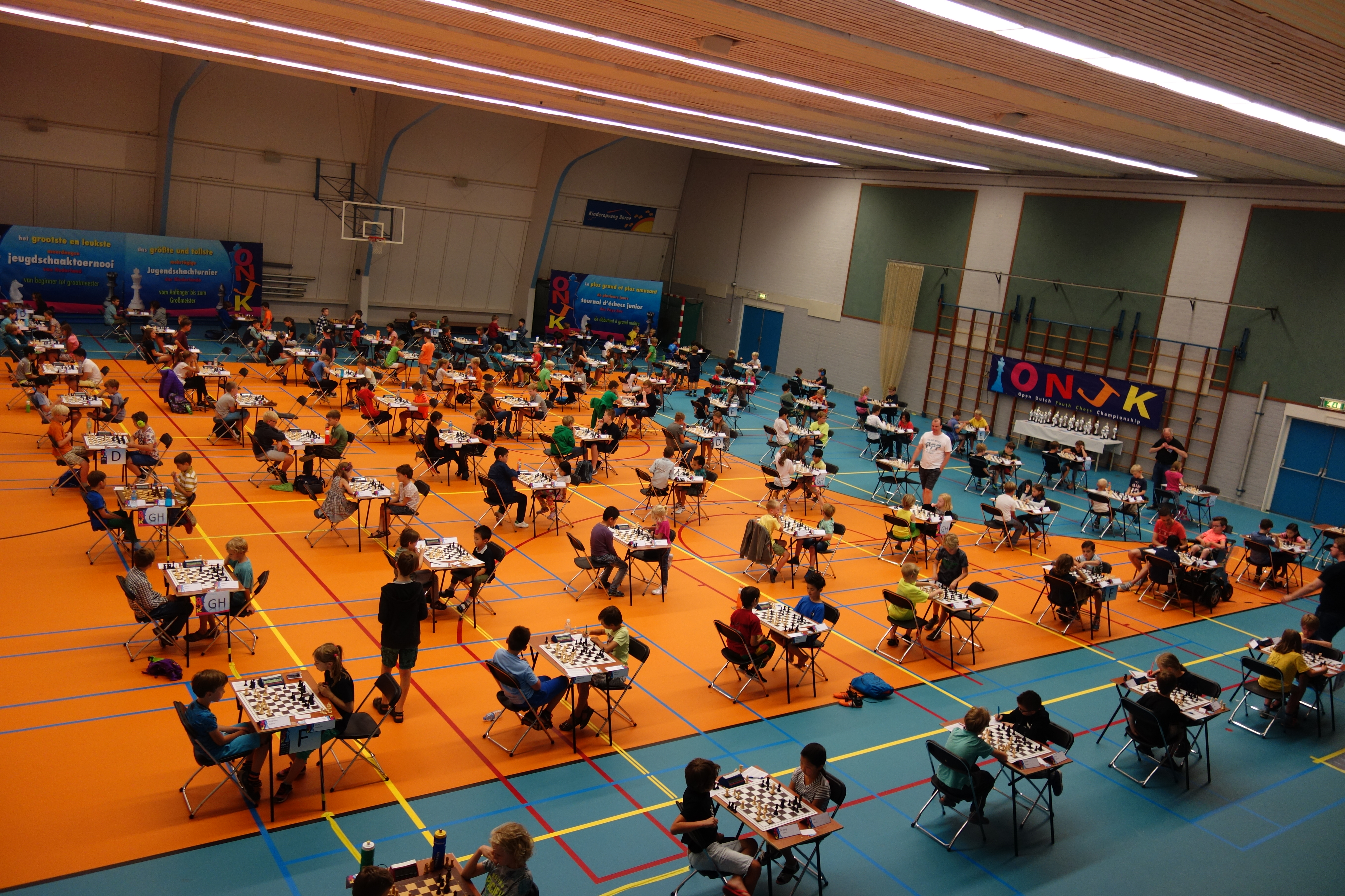 Dutch Open Youth Chess Championships in Borne, Aug. 2017